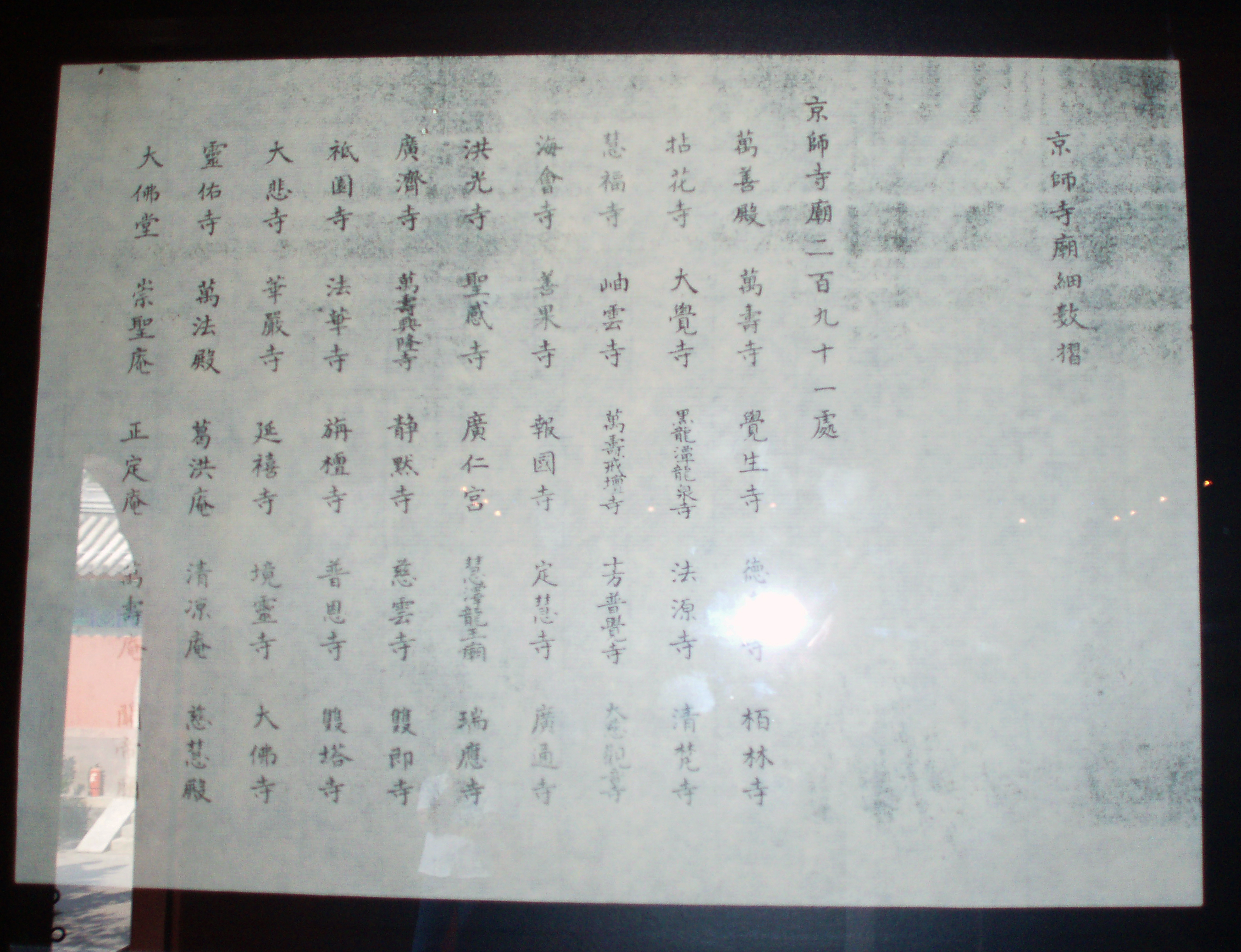 Official Memorial of Beijing Temple Statistics. 中文（香港）: 《京師寺廟細數摺》（局部）